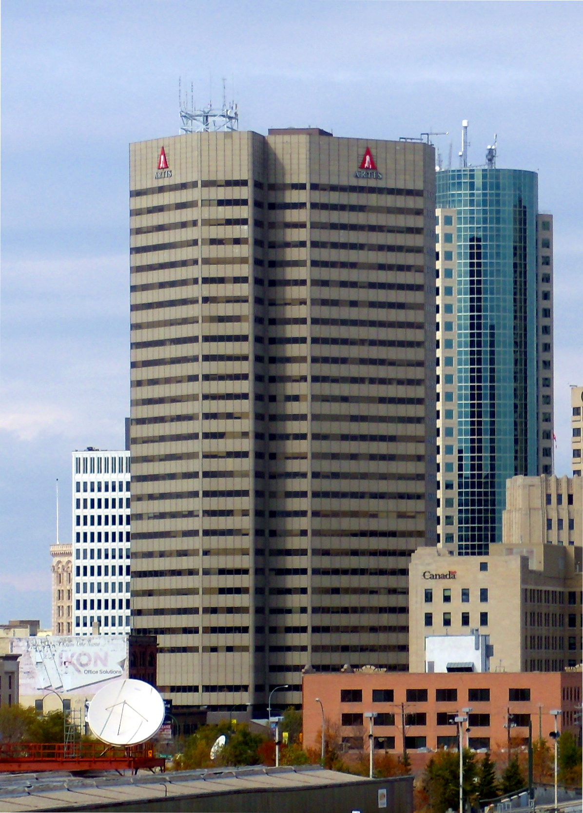 360 Main tower in Winnipeg, Manitoba with Artis branding